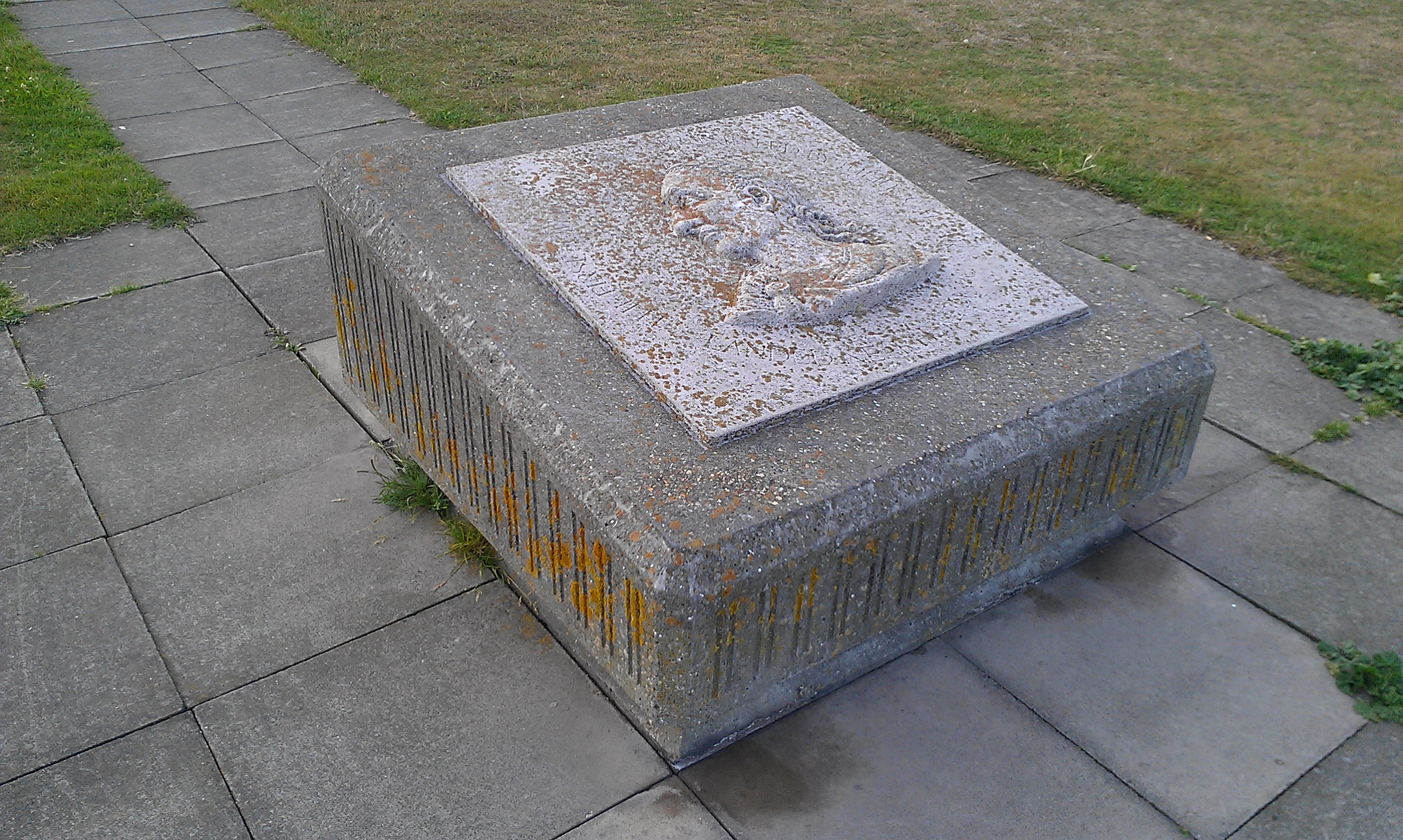 A modern monument marking the site of the Roman conquest of Britain located in the Kentish coastal town of Walmer.